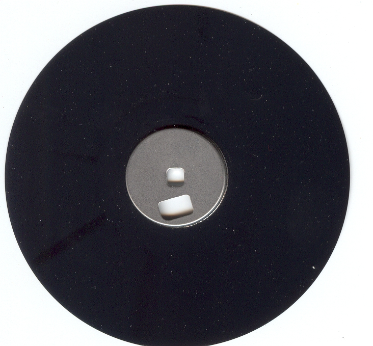 The magnetic disc from inside a 3.5" floppy disk.